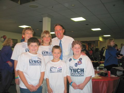 See where this picture was taken. [?]